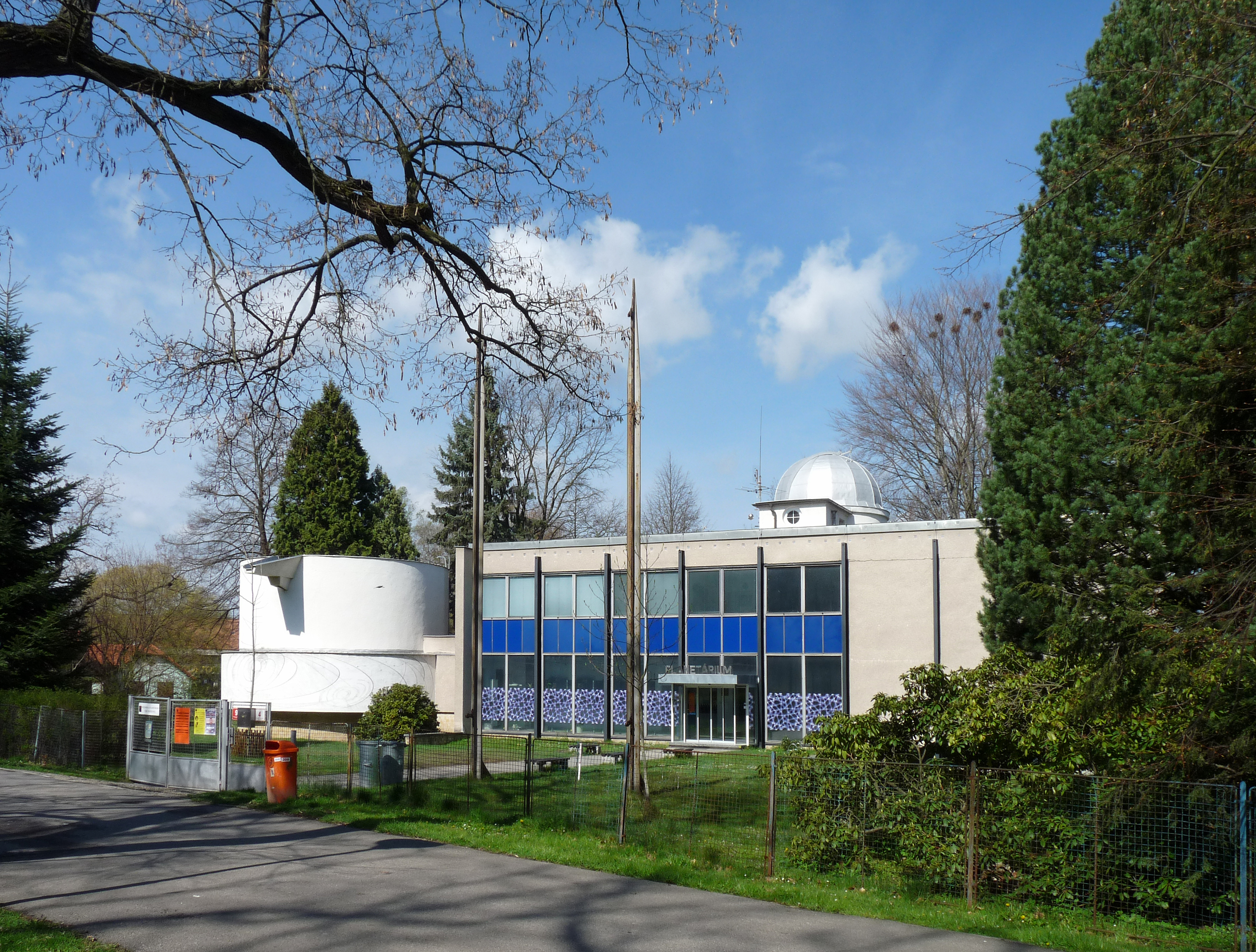 Planetarium in České Budějovice, Czech Republic.